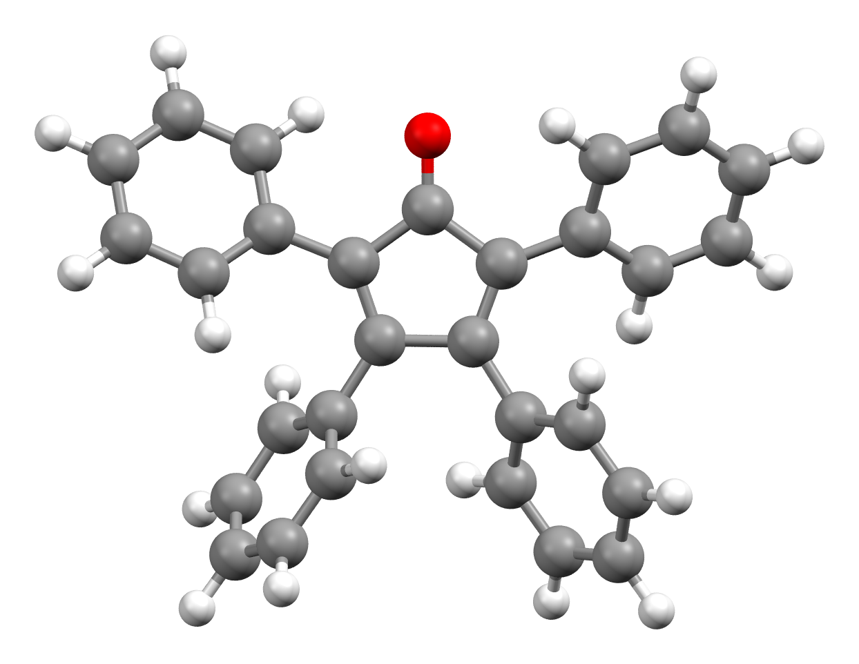 Structure of tetraphenylcyclopentadienone. (1991). Acta Cryst. C47: 164-168.